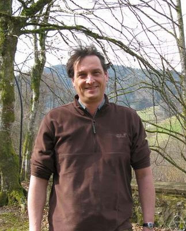 Stefan Müller-Stach, Oberwolfach 2010